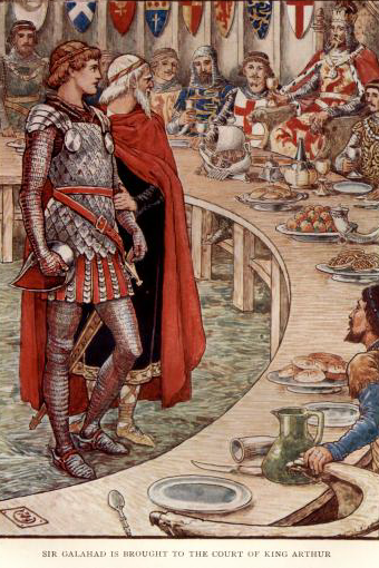 Walter Crane's illustration for Henry Gilbert's King Arthur's Knights: The Tales Retold for Boys and Girls (1911).